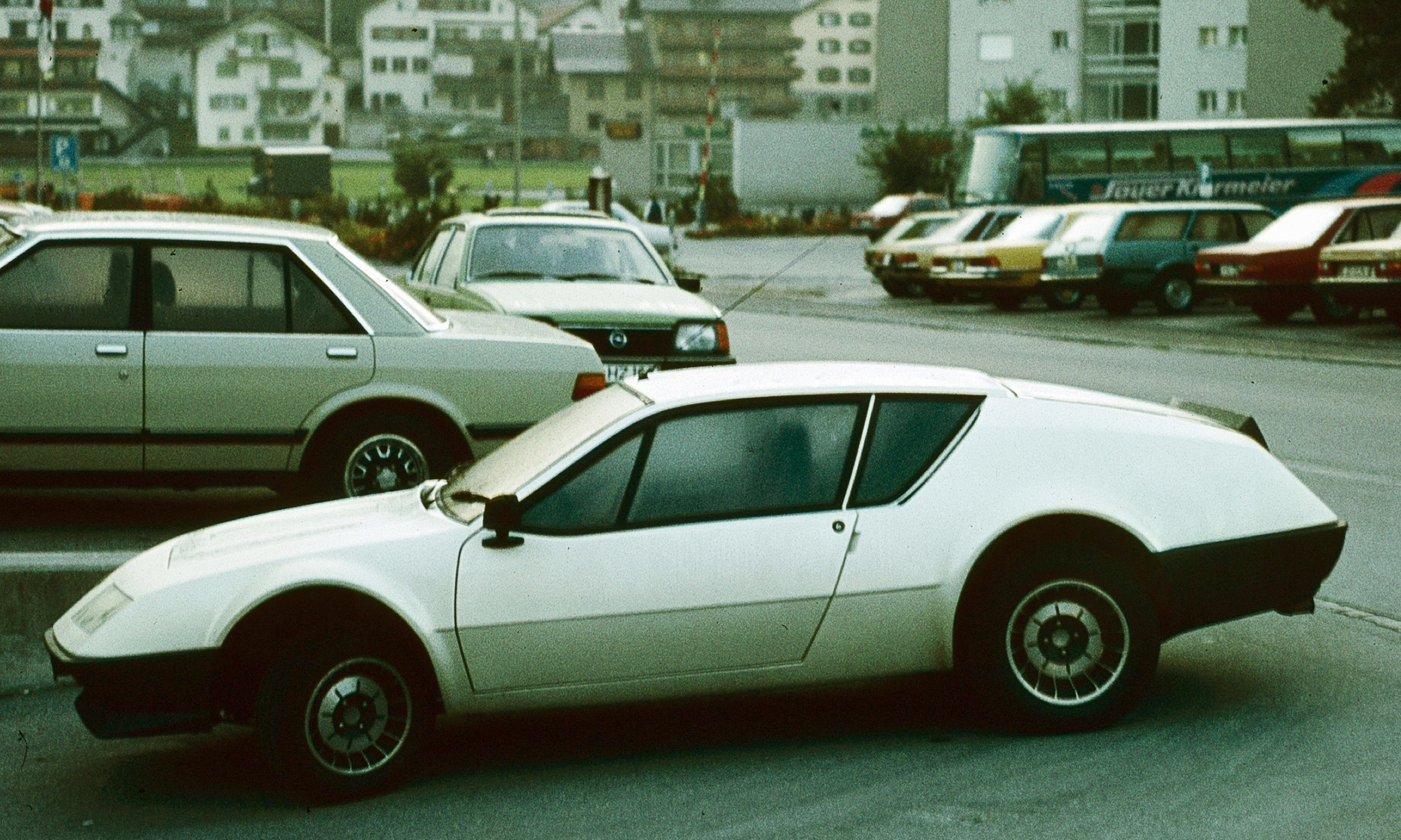 1981-1984 Alpine A310 V6 in Alpine resort, western Austria